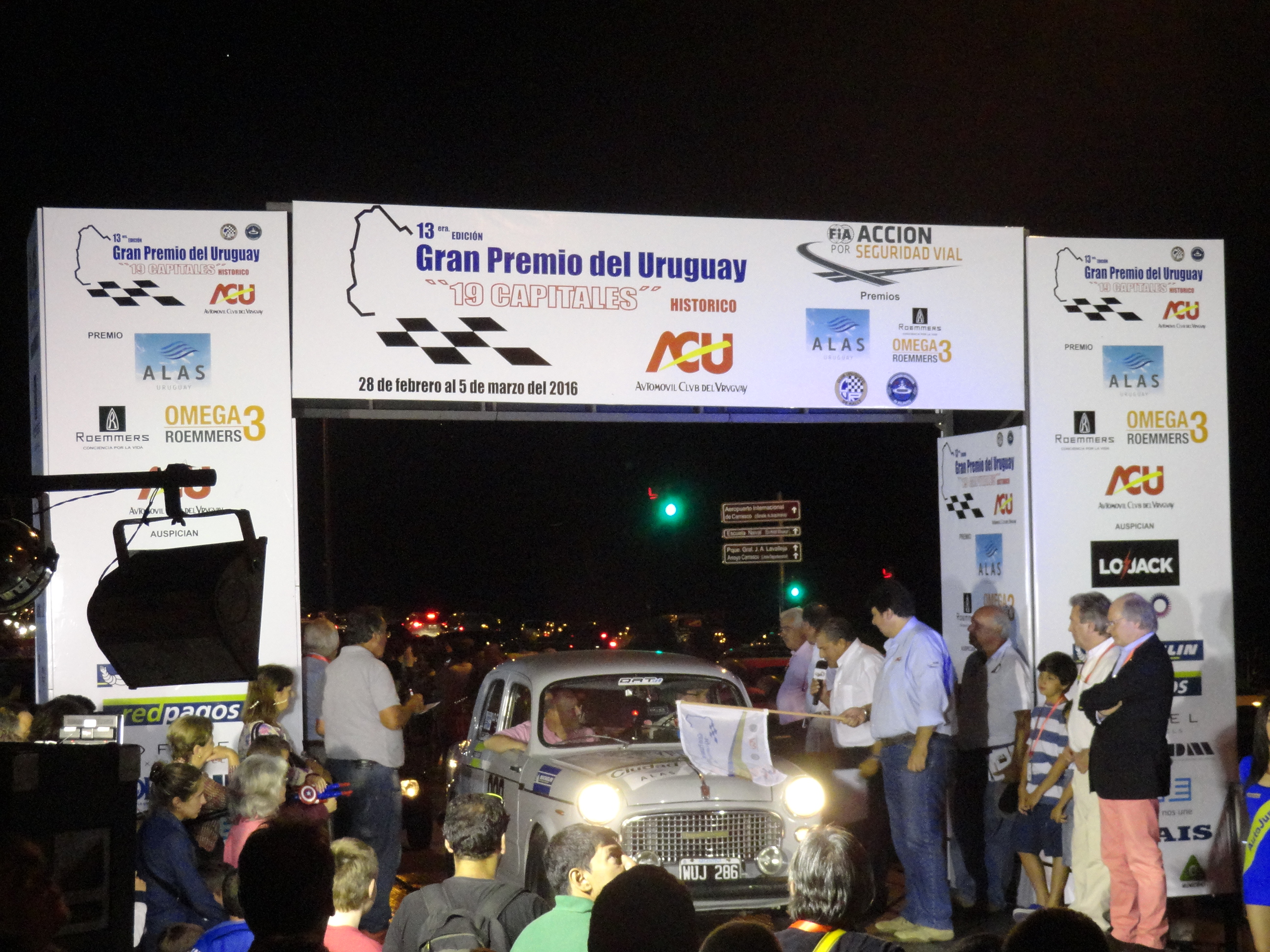 Official departure of the 2016 Gran Premio del Uruguay 19 Capitales Histórico at the Hotel Sofitel Carrasco in Montevideo